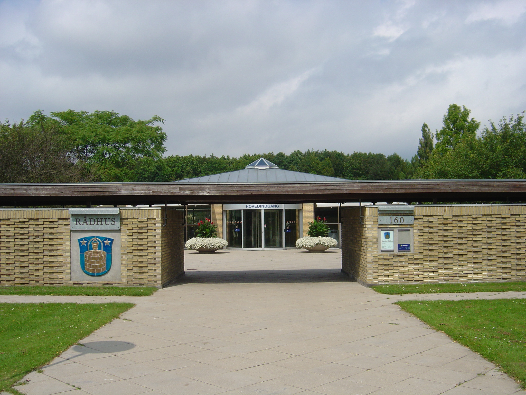 Brøndby Rådhus - Main entrance to Town hall in Brøndby, Copenhagen. Seen from south side, next to Park Allé.